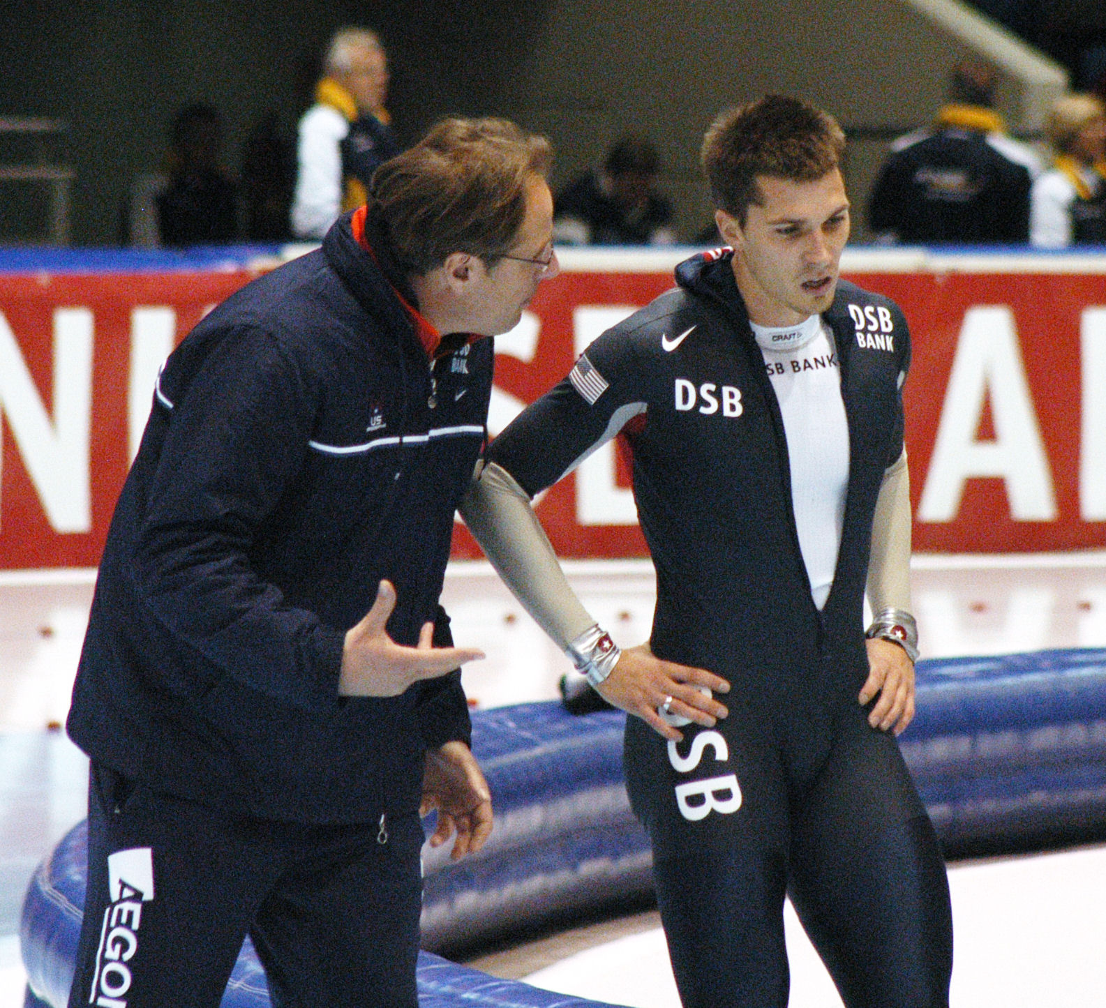 Kip Carpenter (USA) at a world cup speedskating in Heerenveen, the Netherlands, with his coach Jac Orie.